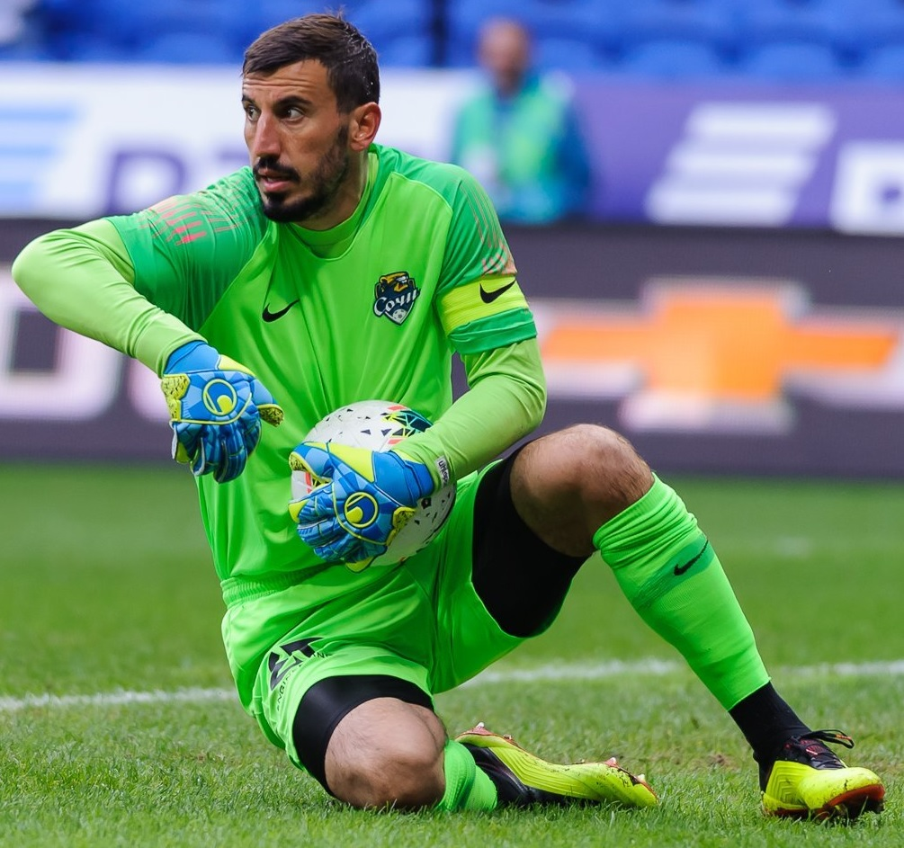 Soslan Dzhanayev with PFC Sochi in a game against FC Dynamo Moscow.